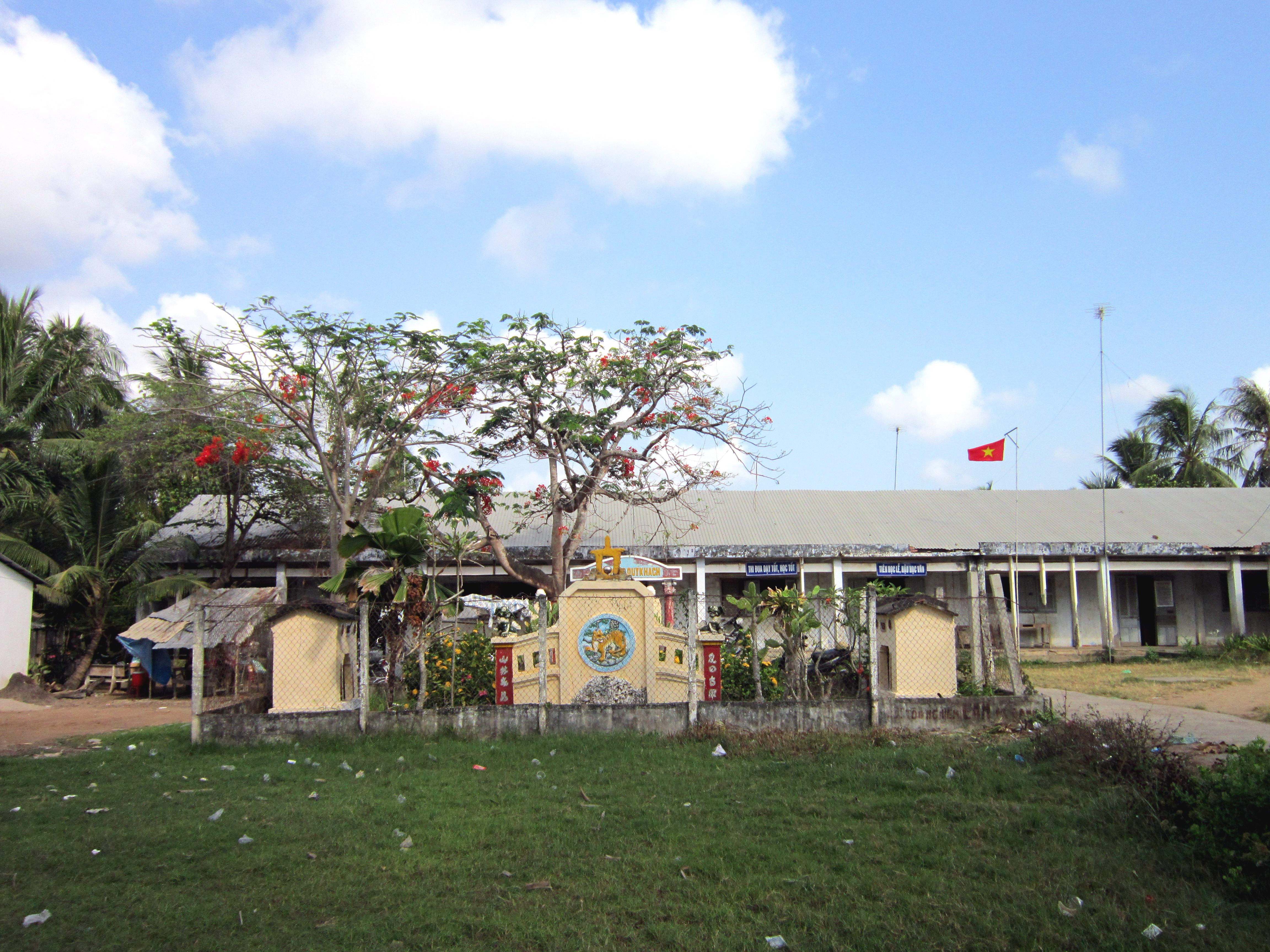 Ngôi đình Vĩnh Yên ở xã Hiếu Tử (huyện Tiểu Cần, tỉnh Trà Vinh, Việt Nam) đã bị một trường học cất sau che khuất, nên chỉ còn thấy một bình phong và hai ngôi miếu nhỏ của đình mà thôi.